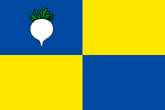 Flag of Sint-Gillis-Waas